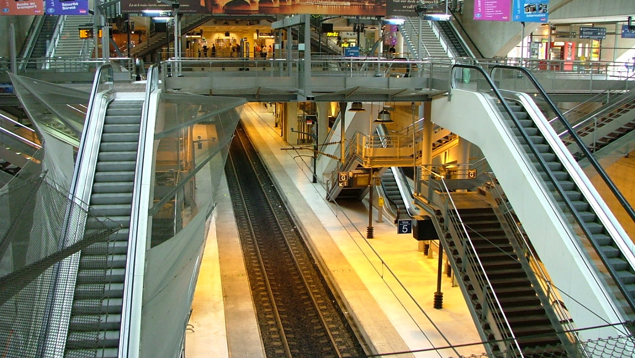 Taken by myself on October 21, 2006. I release this image completely into the public domain and it can be used without credit to me. This includes unlimited editing.